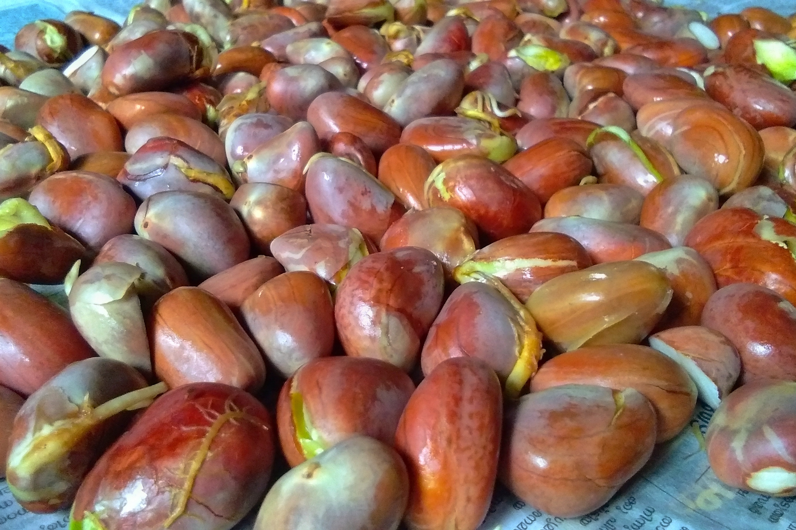 The seeds of jackfruit are edible